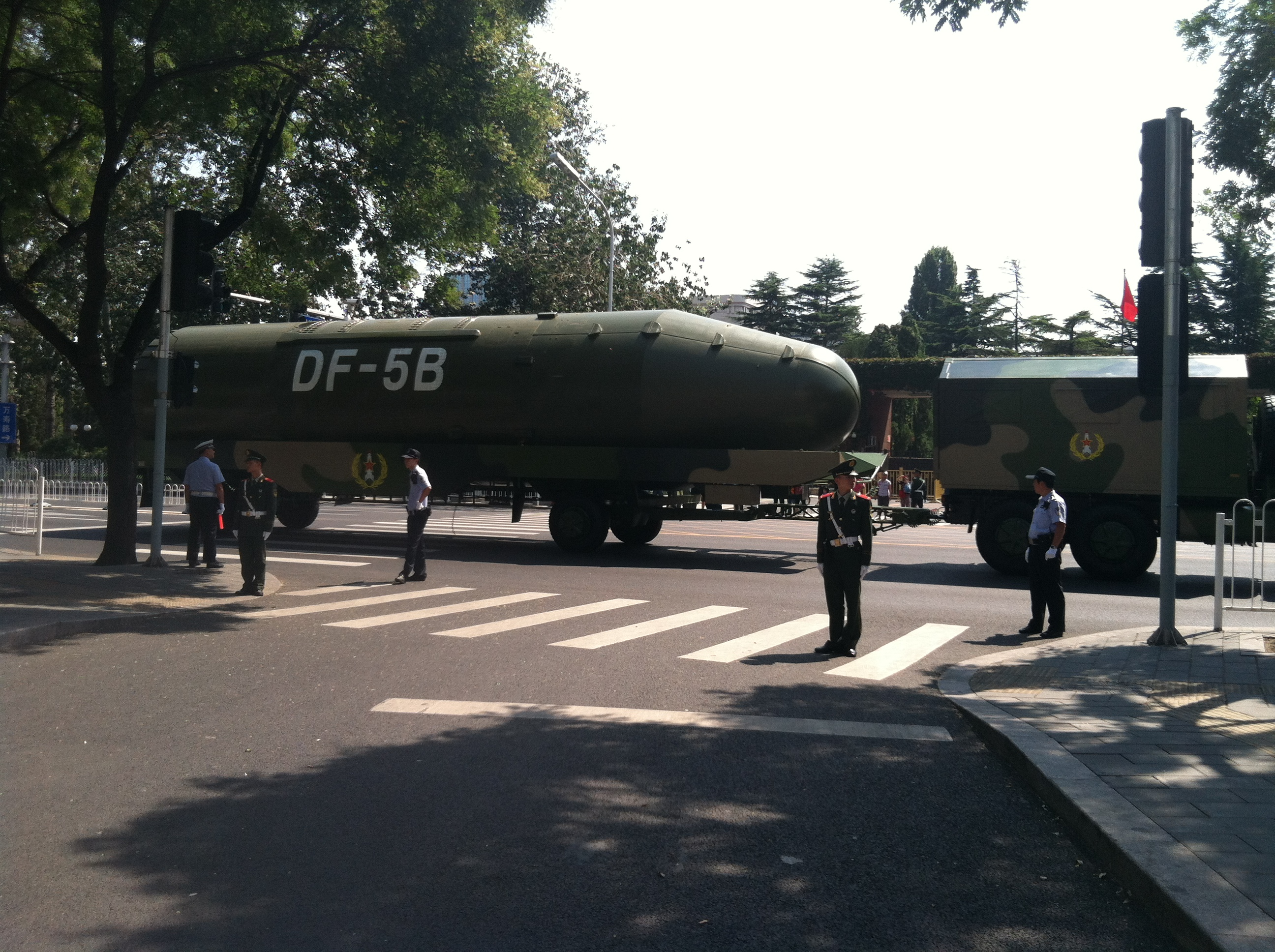 The upper stage of the newly upgraded DF-5B Chinese intercontinental ballistic missile, as seen after the military parade held in Beijing on September 3, 2015 to commemorate 70 years since the end of WWII.